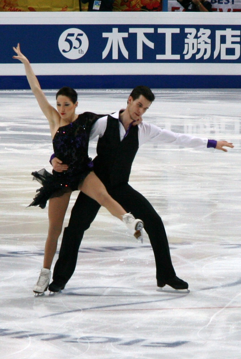 Katelyn Good and Nikolaj Sorensen at the 2011 World Figure Skating Championships